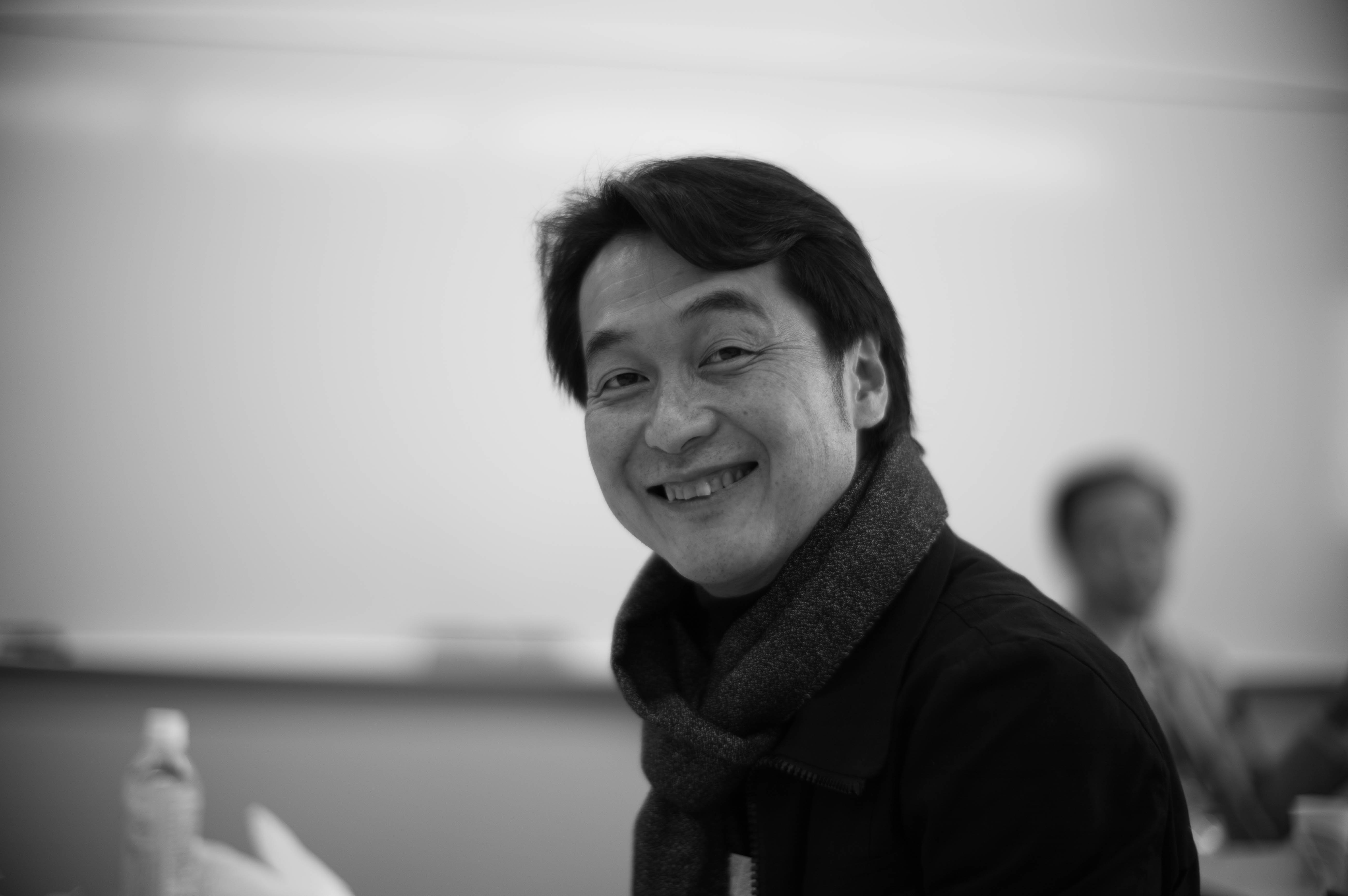 Takeshi Natsuno, Director of the Dwango Co., Ltd., spoke at the Enjin01 Open College in Hamamatsu on Feburuary 10, 2013.